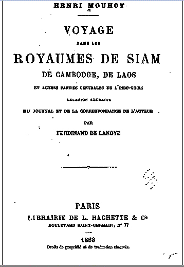 Cover page of Henri Mouhot:Voyage dans les royaumes de Siam, de Cambodge, de Laos